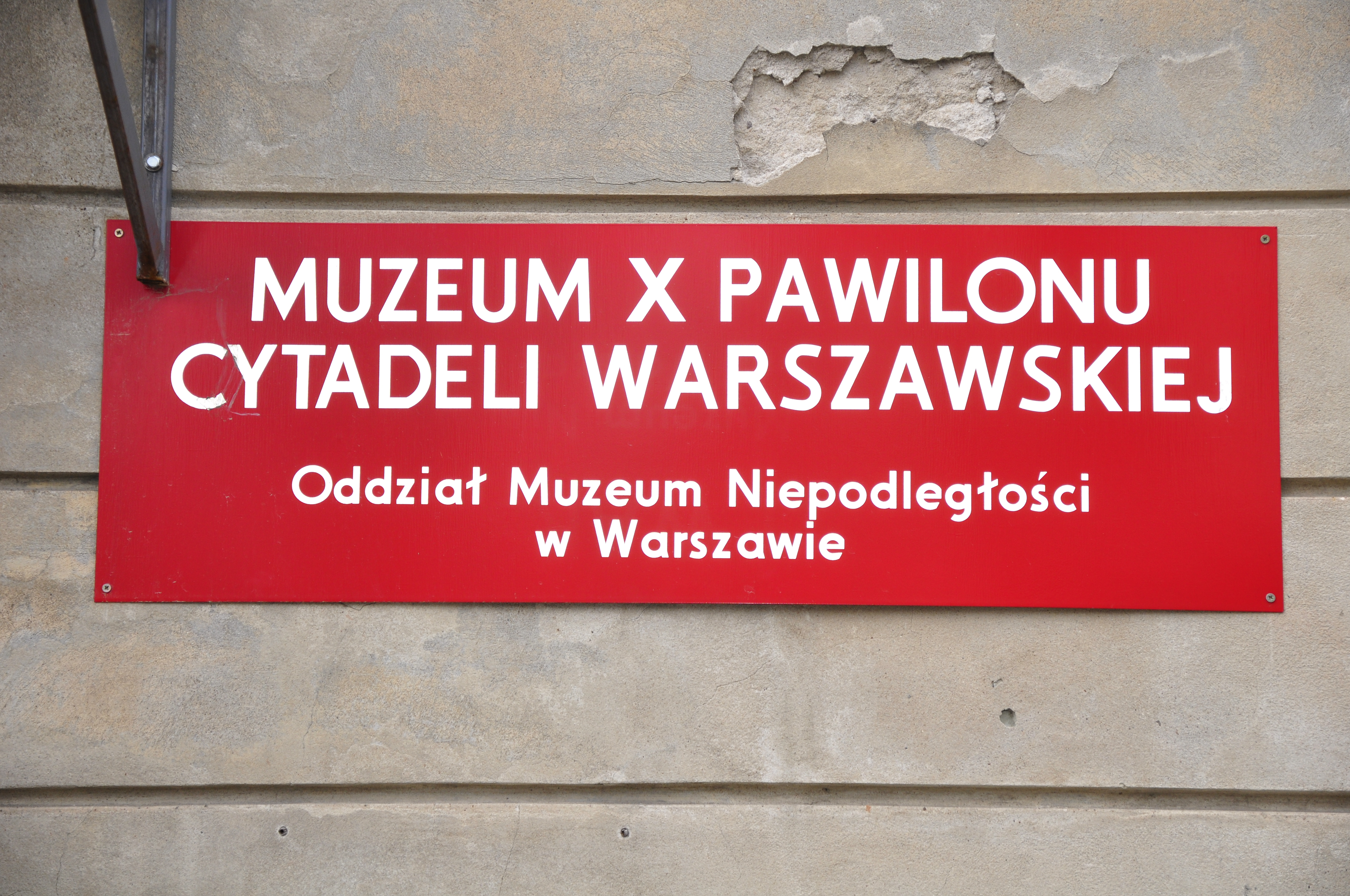 Muzeum X Pawilonu Cytadeli Warszawskiej